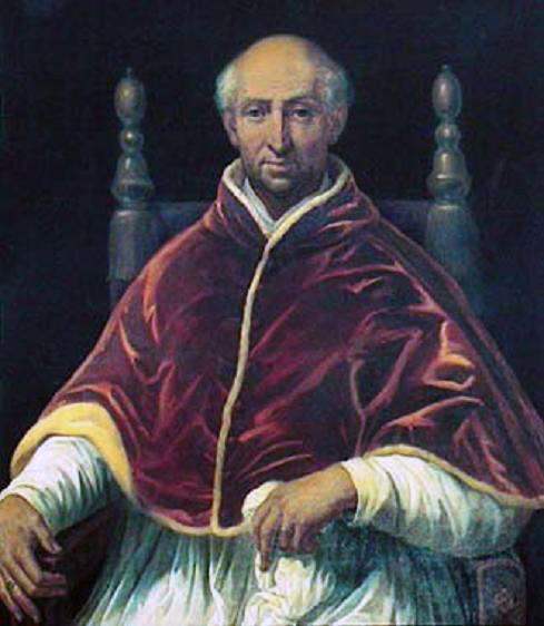 Portrait of pope Clement VI